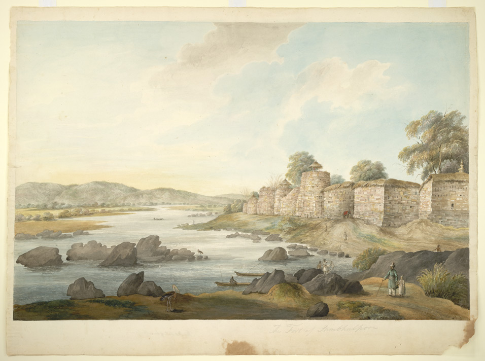 Watercolour of the fort at Sambalpur in Orissa, by an anonymous artist for the Gilbert Collection, c. 1825. Inscribed on the front : 'The Fort of Sumbhulpore'; on the back: 'The Old Fort of Sumbhulpore.'